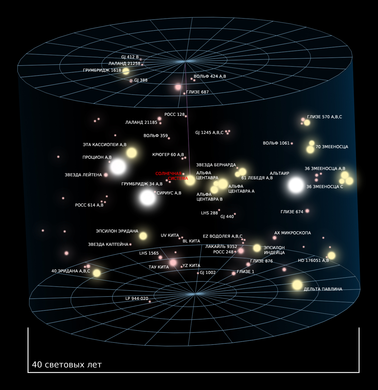 Sun's neighborhood of stars.